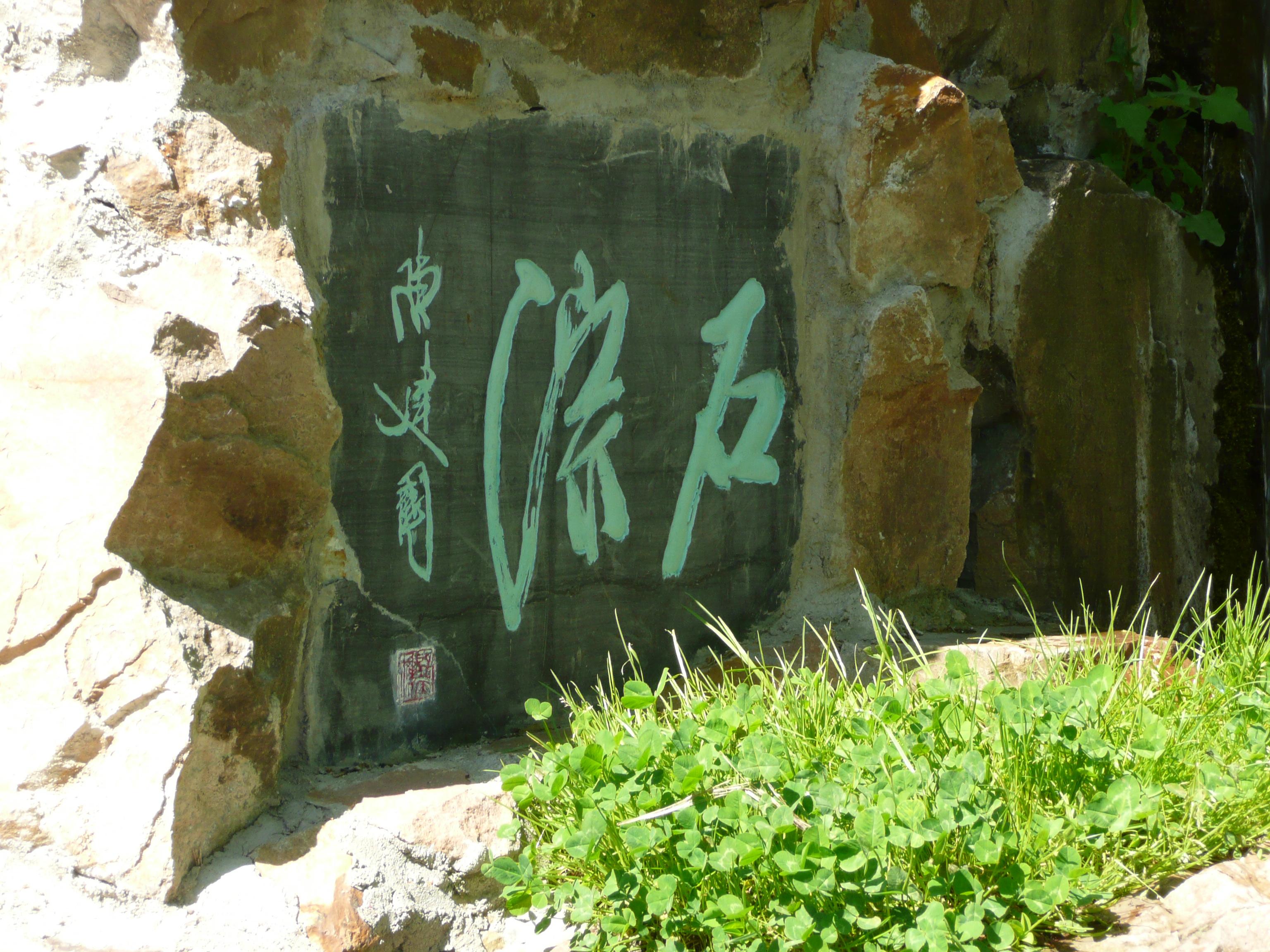 Chinese inscriptions; Chinese Garden in Frankfurt am Main